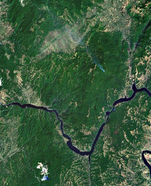 Muntii Almajului vazuti din spatiu